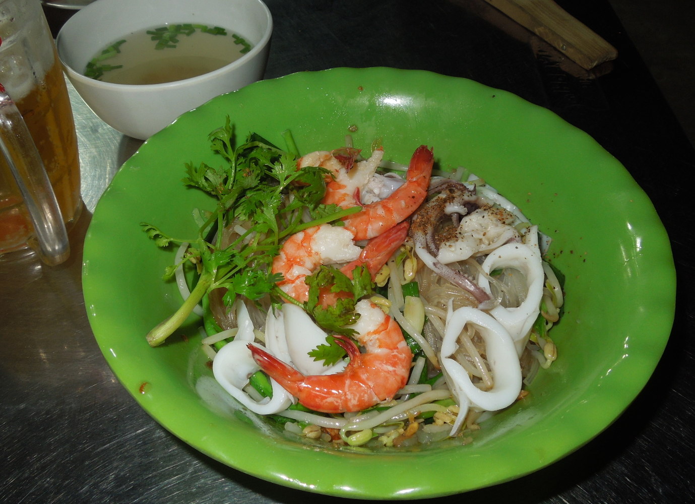 Vietnamese rice noodle "Hu Tieu" this is Hủ tiếu hải sản khô(non soup with seafood). 2015, Hà Tiên city, Kiên Giang province.